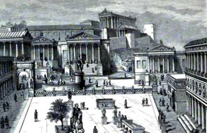 The Comitium after 44BC